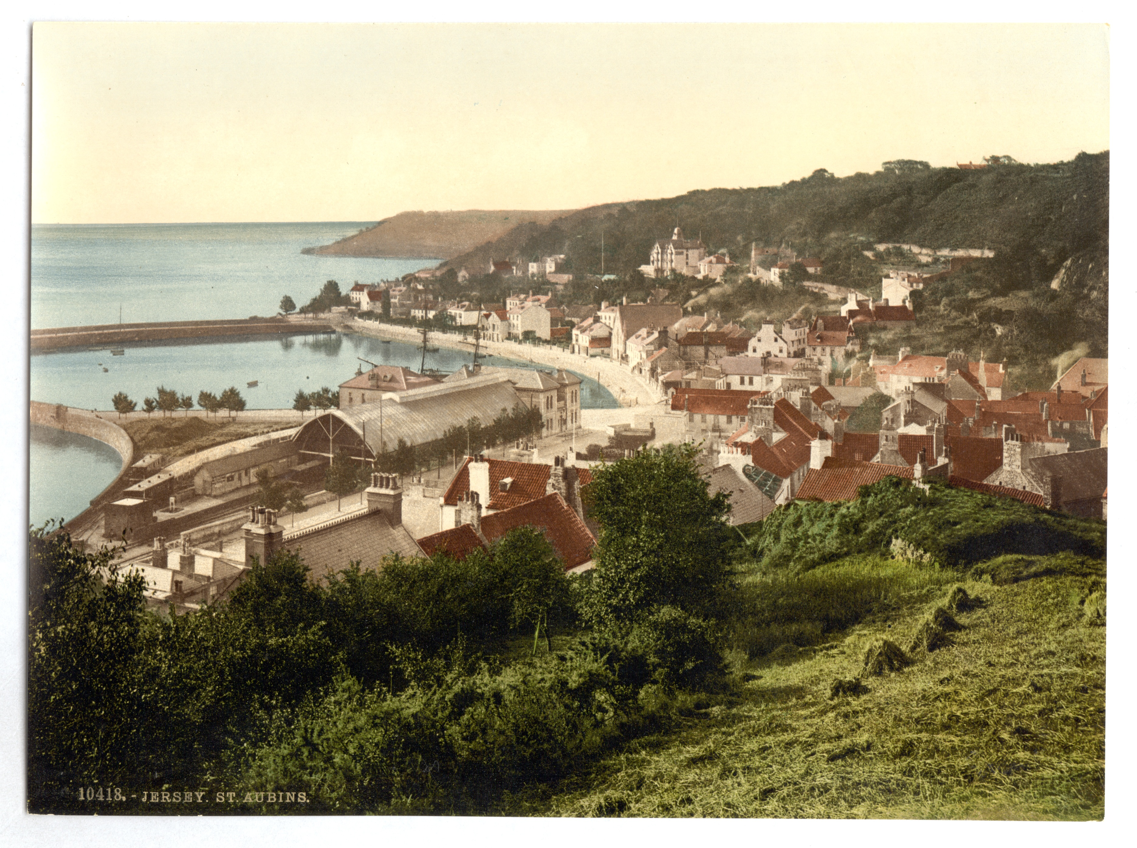 More information about the Photochrom Print Collection is available at Forms part of: Views of the British Isles in the Photochrom print collection.; Title from the Detroit Publishing Co., Catalogue J-foreign section, Detroit, Mich. : Detroit Publishing Company, 1905.; Print no. "10418".